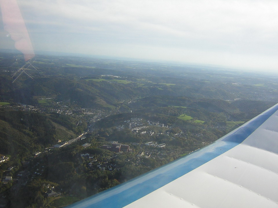 Aerial view - Niederseßmar Look about the Berstig (hospital), B55 up to the Seßmarer triangle. Author This picture was made available kindly by Arthur Kraft - for Wikipedia* Licence GNU FDL and CC-by-SA